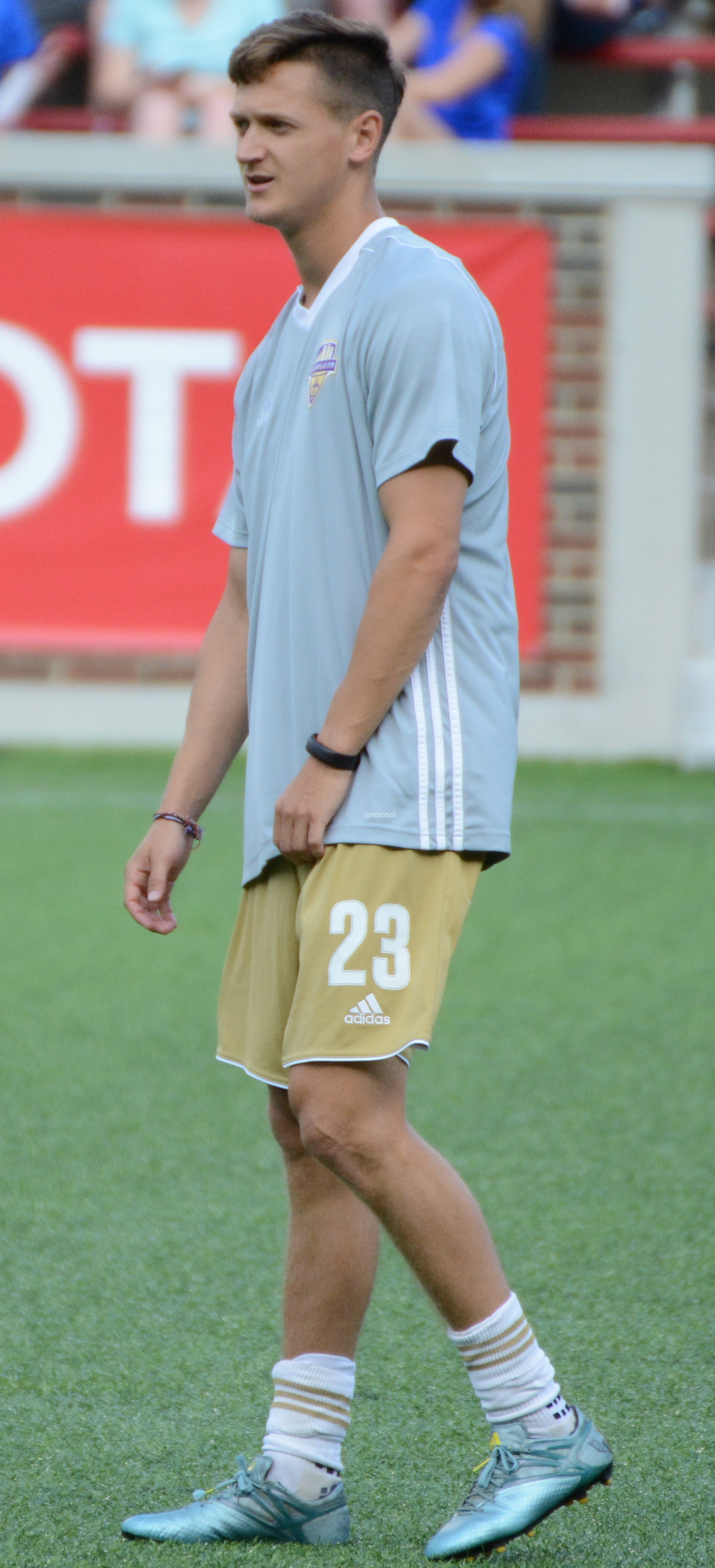 Richard Ballard Taken at a Lamar Hunt U.S. Open Cup match between FC Cincinnati and Louisville City FC at Nippert Stadium in Cincinnati, Ohio on May 31, 2017.